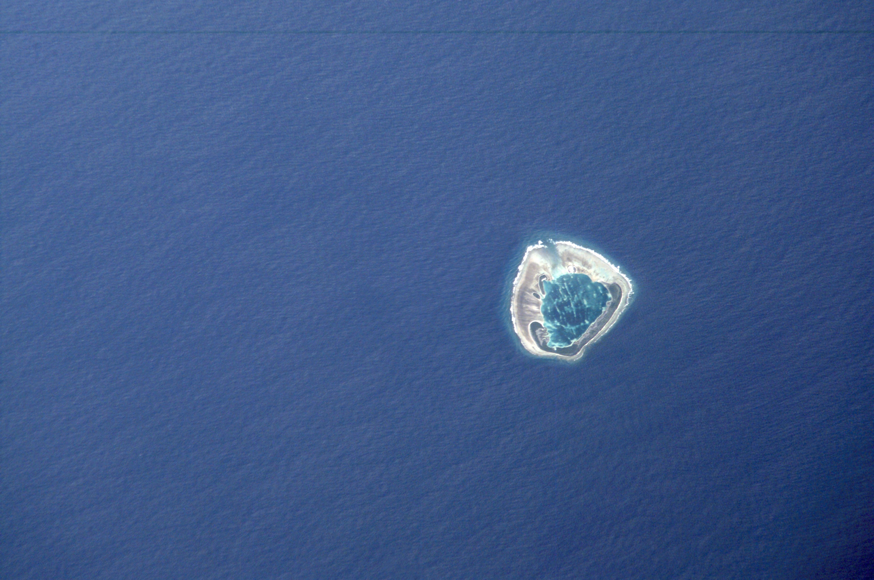 Ducie Island as photographed by NASA in 2001